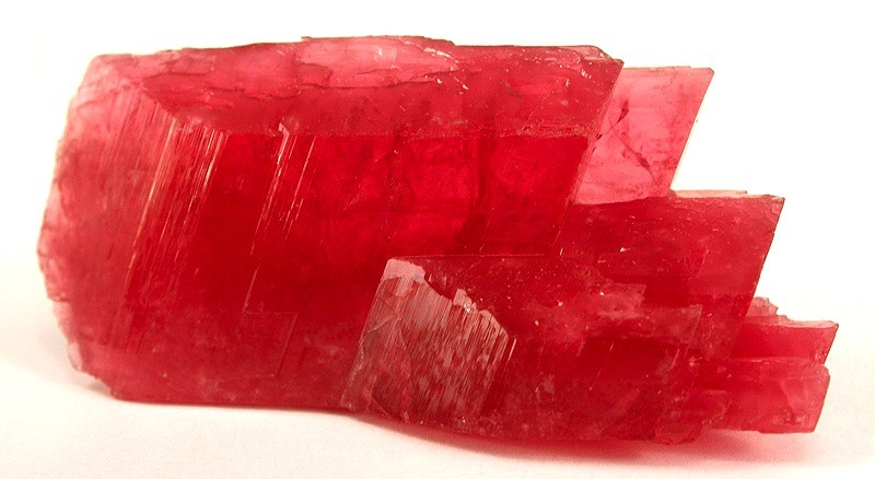 Rhodonite Locality: Conselheiro Lafaiete (old Queluz de Minas), Minas Gerais, Southeast Region, Brazil (Locality at ) Size: 5.5 x 2.4 x 1.2 cm. A fine miniature with sharp geometric form composed of several intergrown crystals. The piece is a pure cherry-red color with no brown.